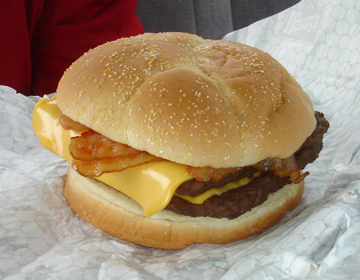 Baconator